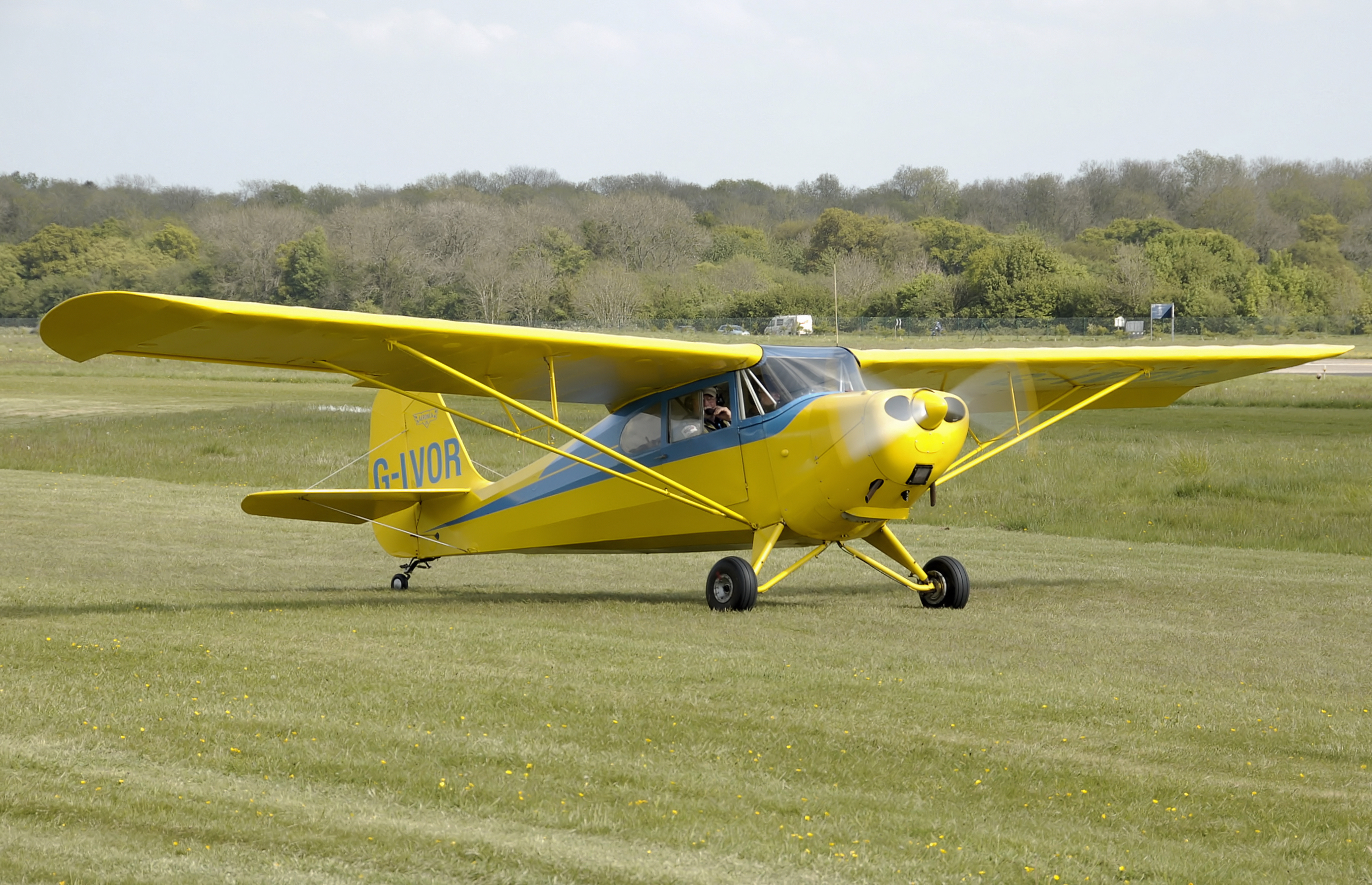 Aeronca 11AC Chief (G-IVOR), built in 1940, at the Great Vintage Flying Weekend (a gathering of vintage light aircraft) at Kemble Airport, Gloucestershire, England. Photographed by Adrian Pingstone in May 2009 and released to the public domain.